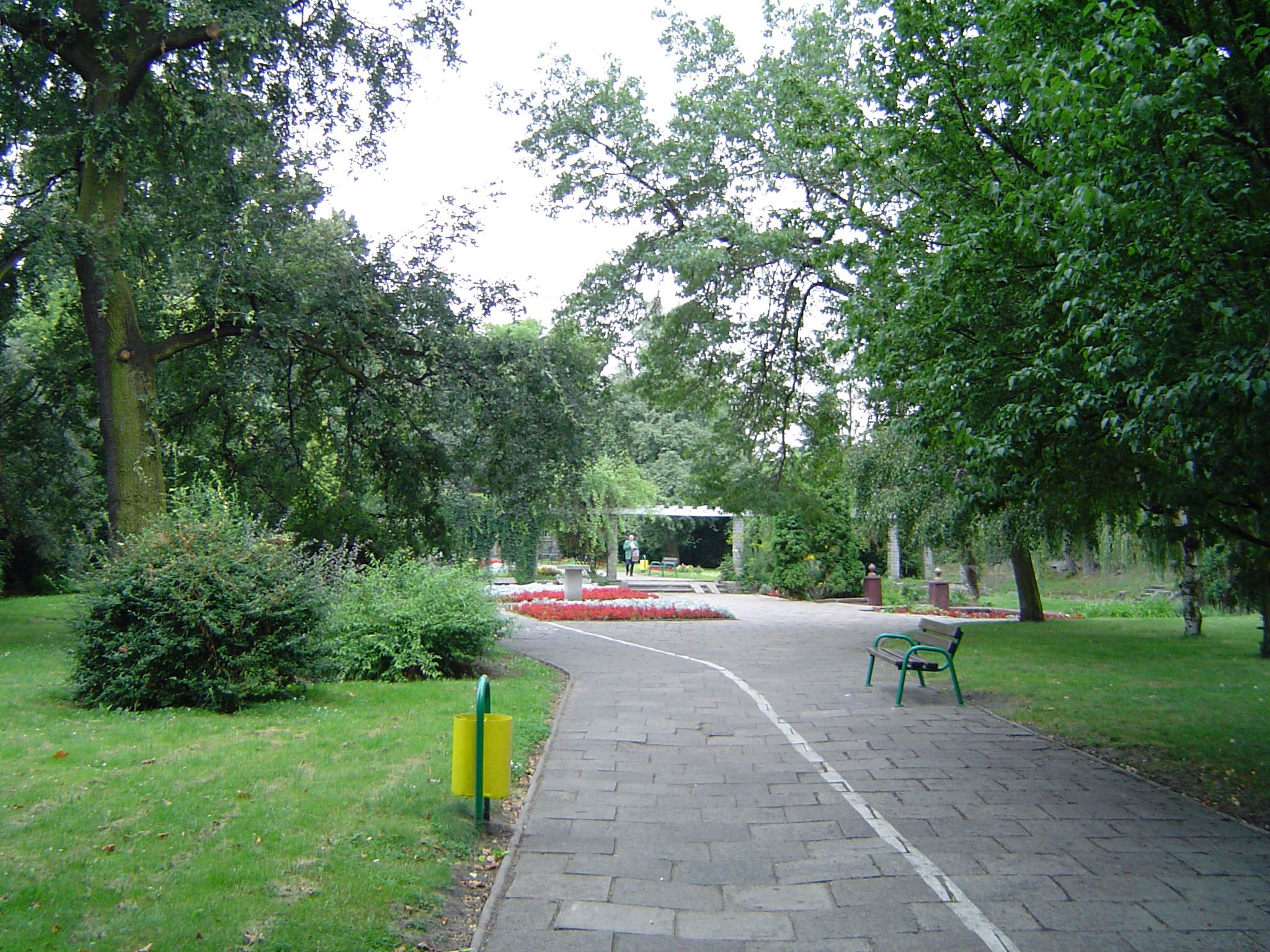 Botanical garden in Grudziądz, Poland